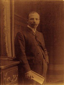 Gustave Marissiaux